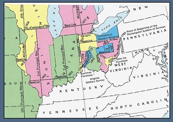 U.S. Bureau of Land Management map showing principal meridians and base lines used for cadastral surveys.